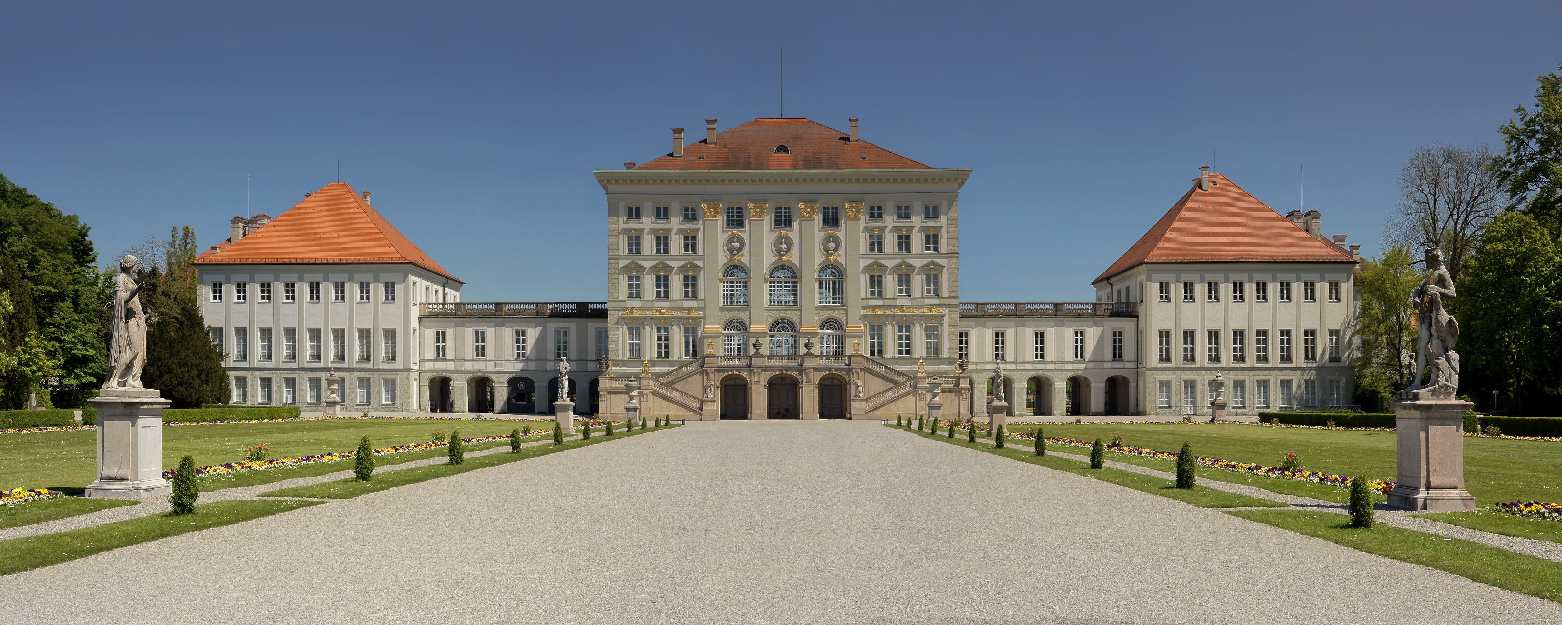 The Nymphenburg Palace (German: Schloss Nymphenburg) is a Baroque palace in Munich, Bavaria, Germany. The palace was the summer residence of the rulers of Bavaria.